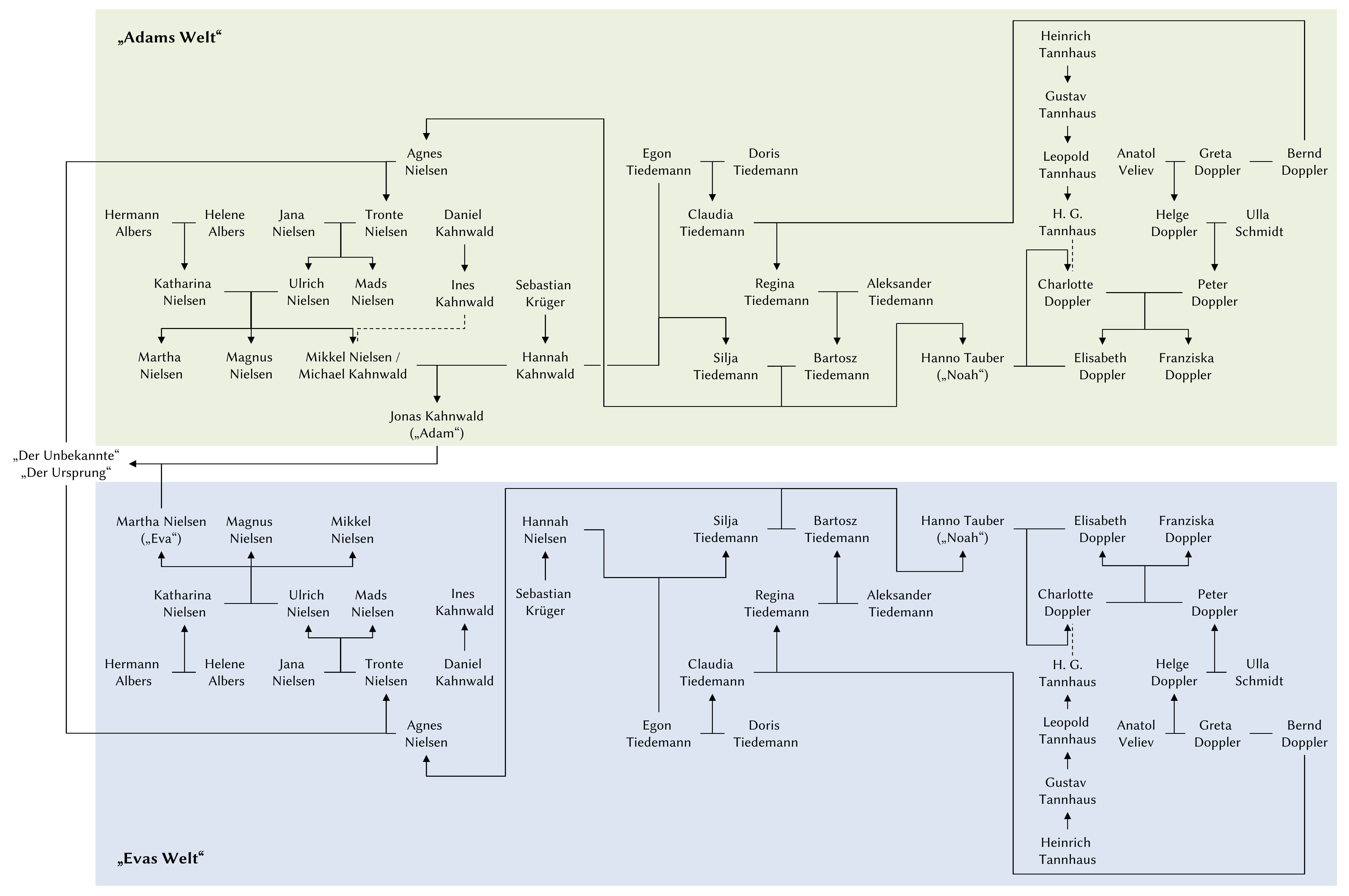 Netflix series Dark: Family tree of the four main families Doppler, Tiedemann, Kahnwald and Nielsen at the end of the third season